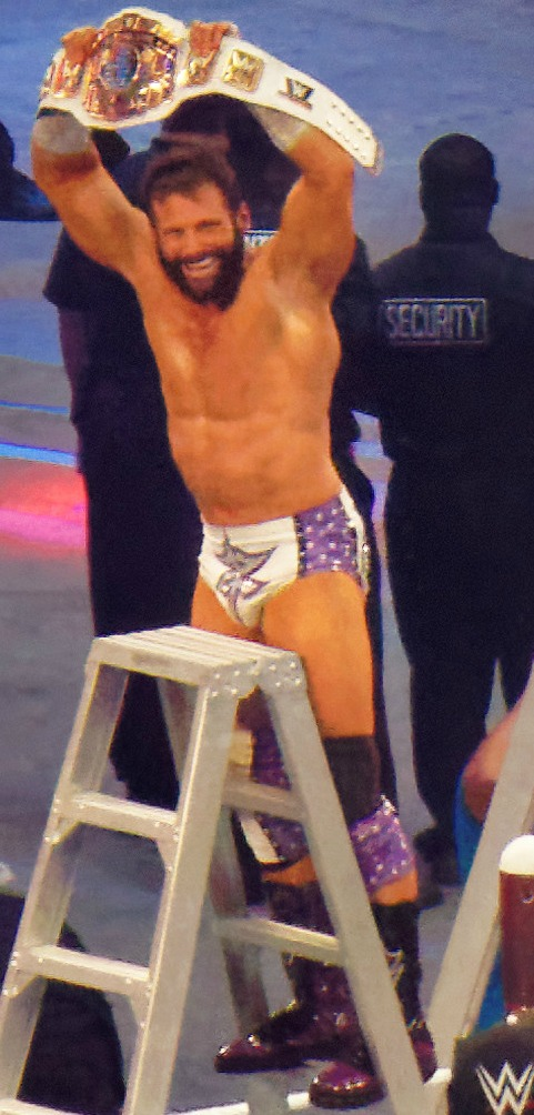 Zack Ryder posing as the Intercontinental Champion just after winning it during a ladder match at WrestleMania 32 in April 3, 2016.